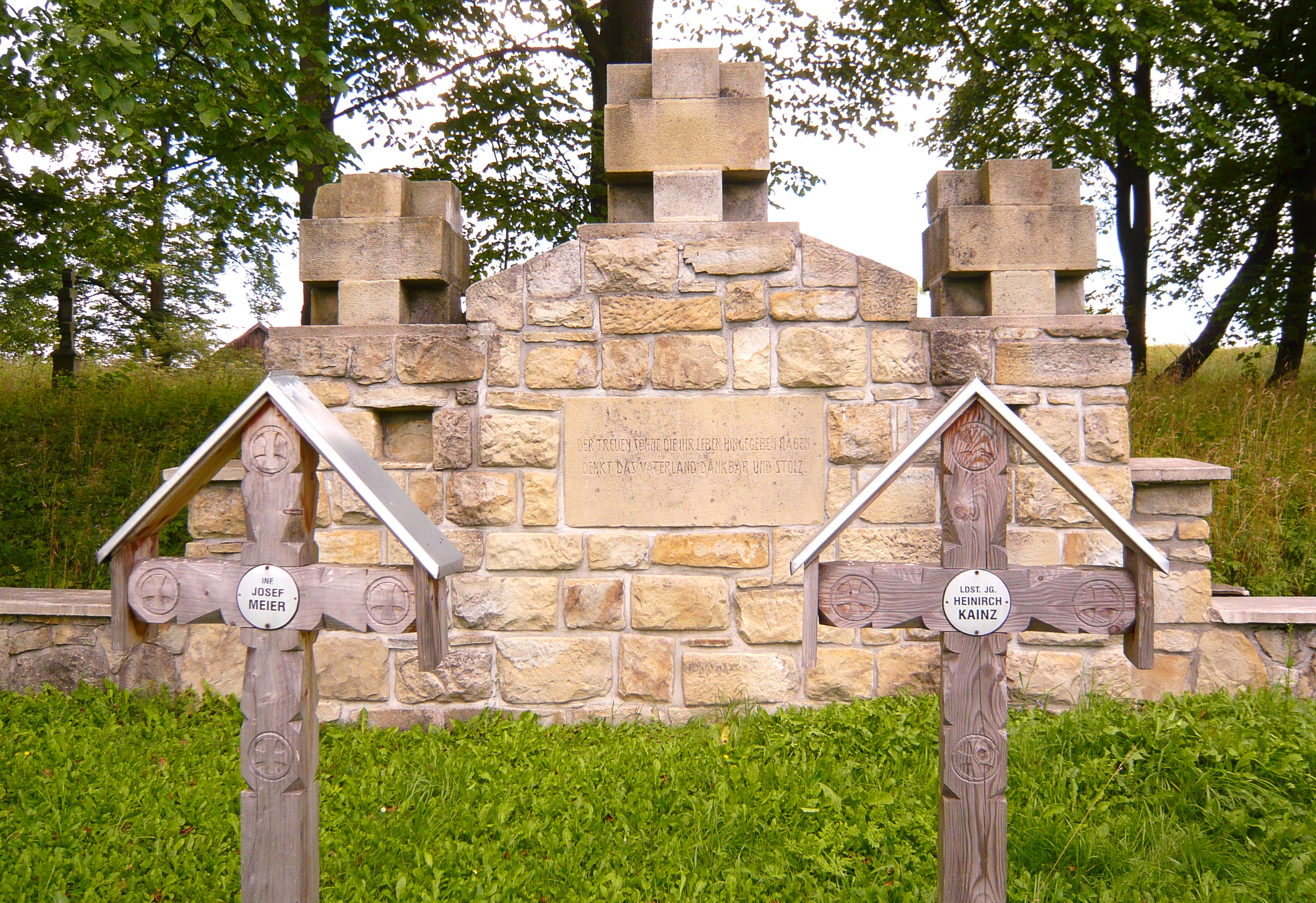 World War I Cemetery nr 3 in Ożenna